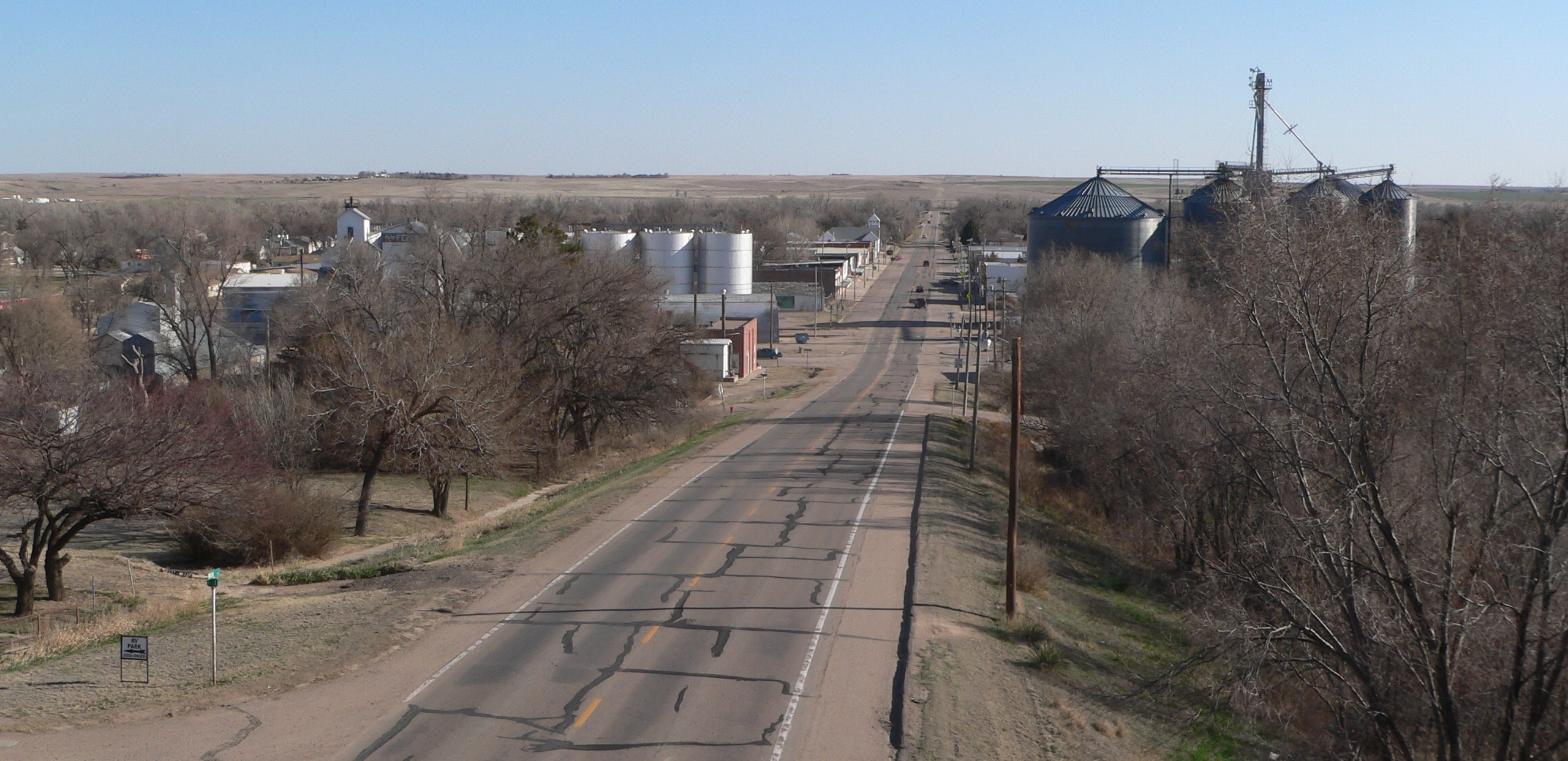 Main Street in Trenton, Nebraska. Camera is facing south.